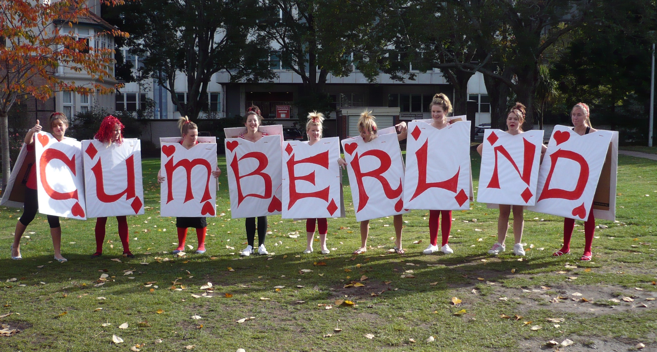 Marchers from the Cumberland College entry in the University of Otago Capping Parade